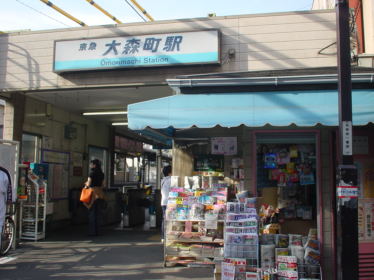 Omorimachi station